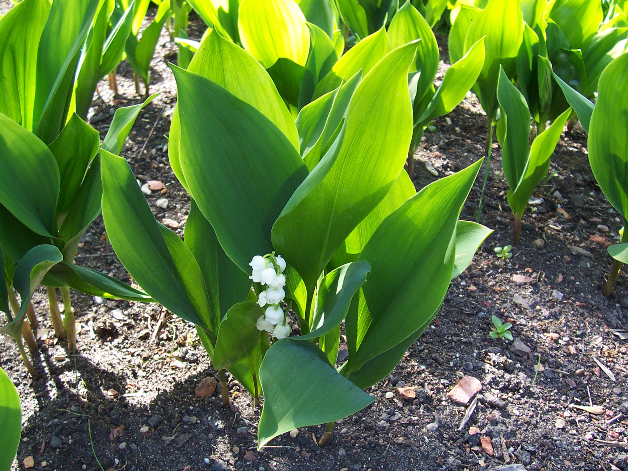 Lily of the Valley (Convallaria majalis L.)